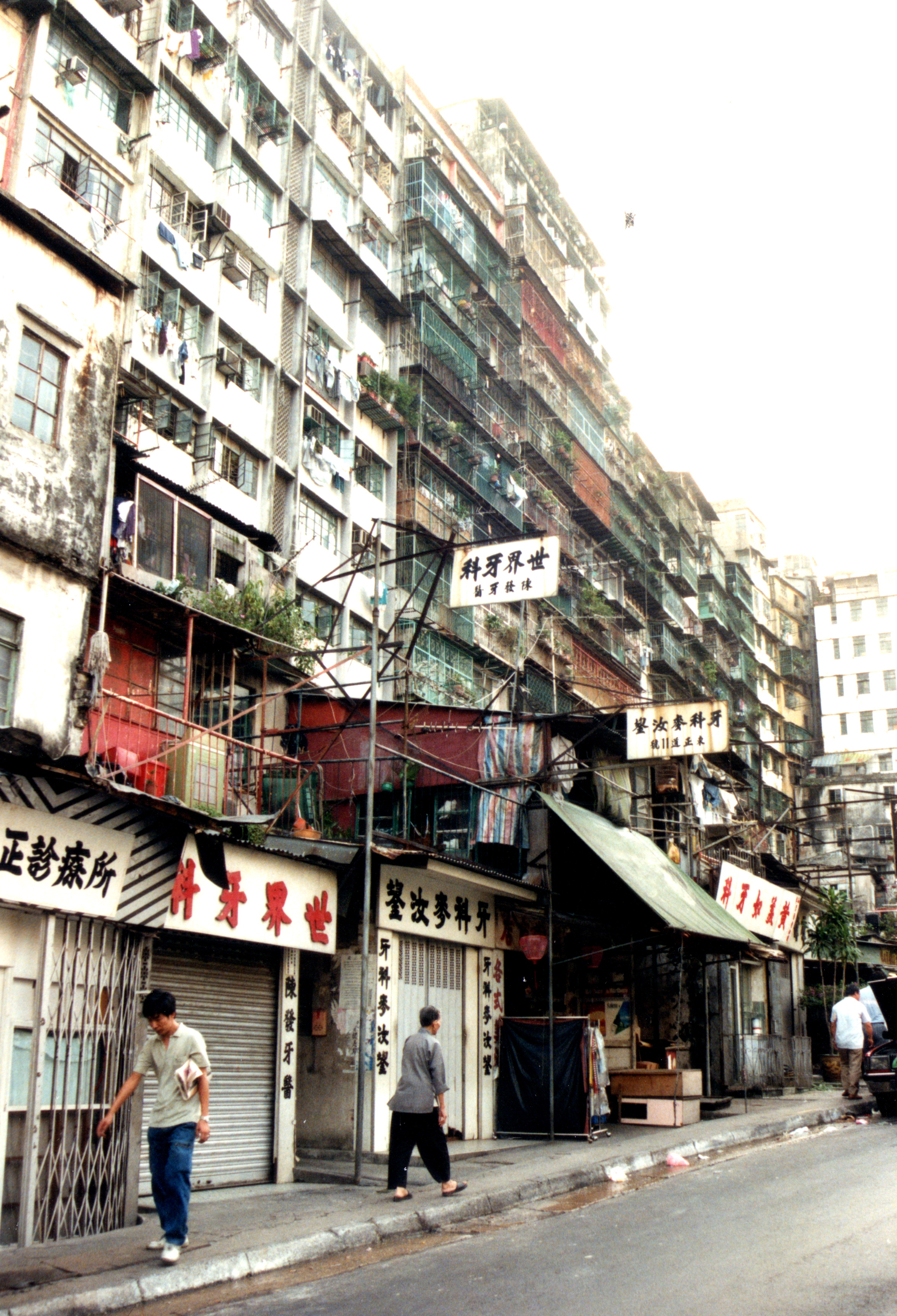 Kowloon Walled City - Hong Kong - this was in September 1991 shortly before they demolished the place and replaced it with quite a nice park